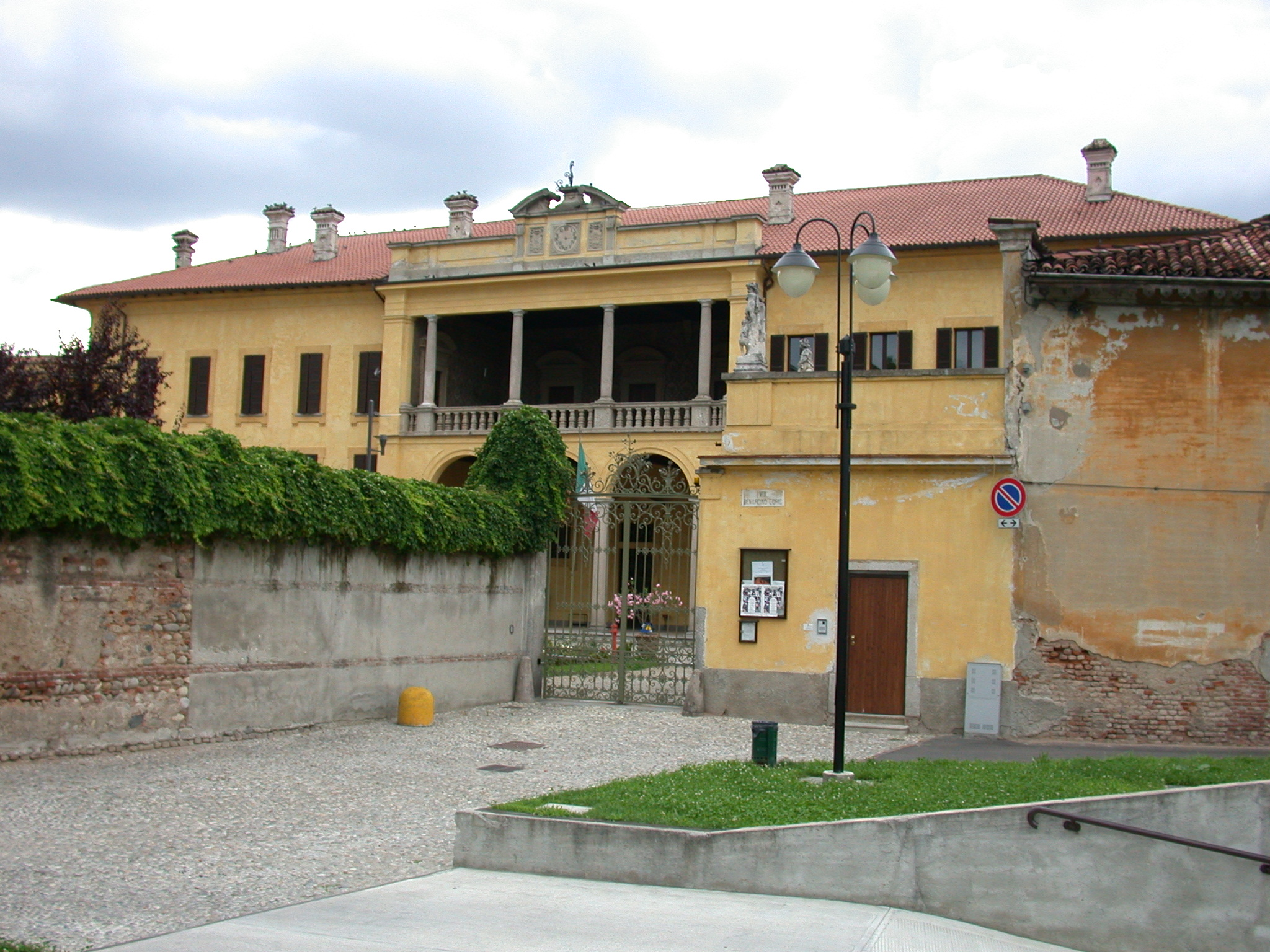 Castano Primo, MI, Italy - Villa Rusconi